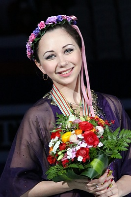 Russian figure skater Elizaveta Tuktamysheva at the 2015 World Figure Skating Championships.